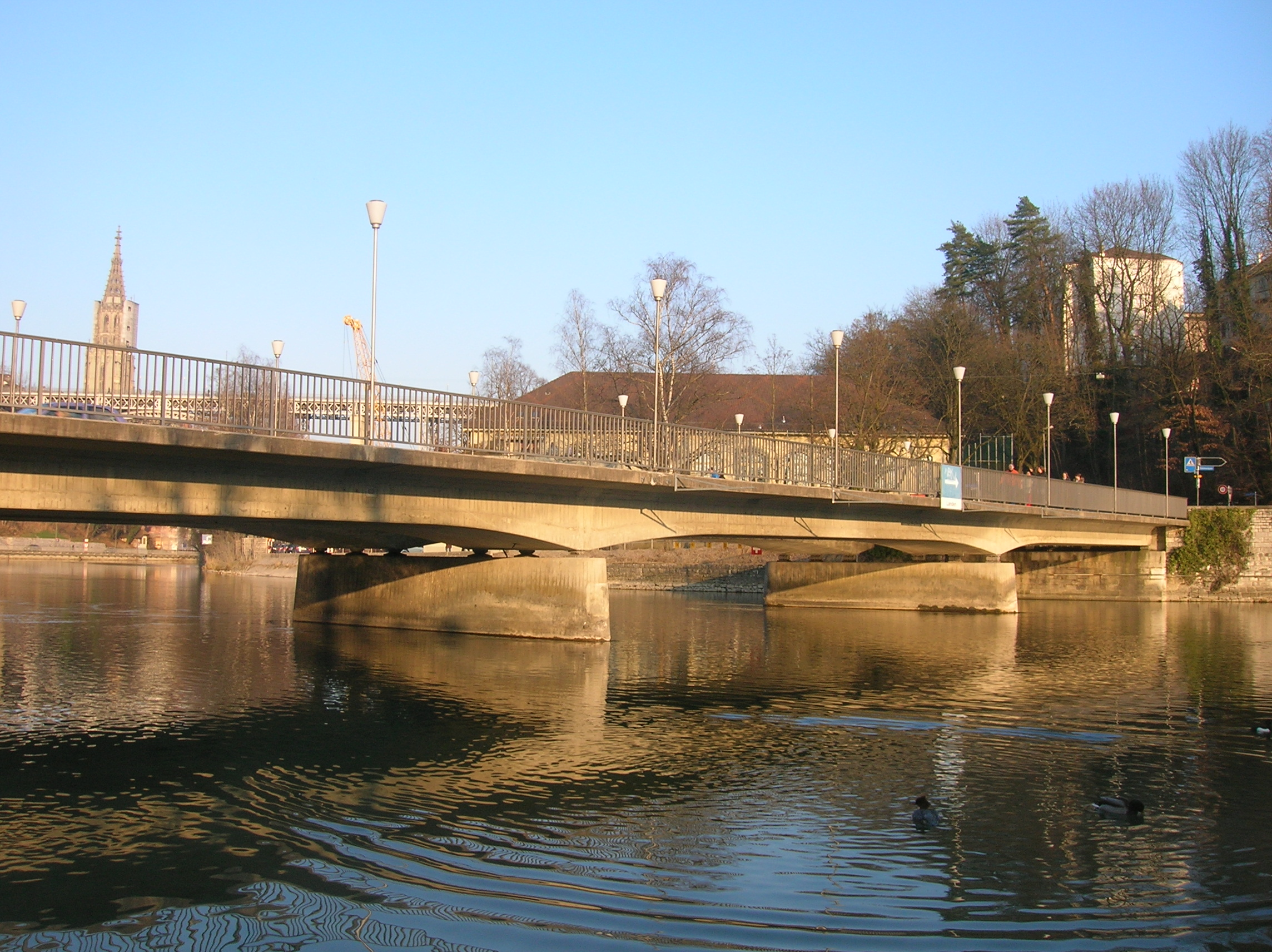 Dalmazibrücke, bridge which crosses the river Aar in Berne